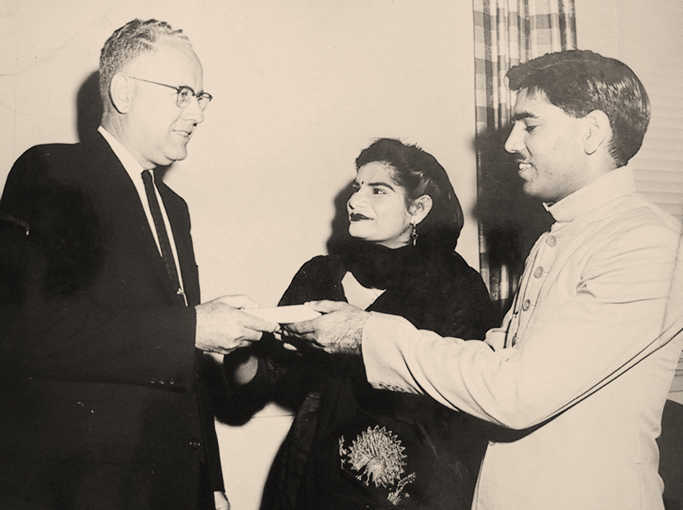 Mujaddid & Lubna Ijaz present Quran to Gordon Blackwell, president of Florida State University, 1960